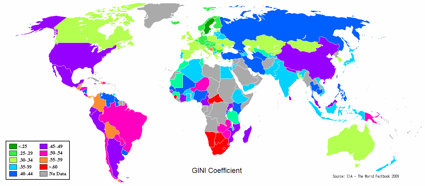 Differences in national income equality around the world as measured by the national Gini coefficient. The Gini coefficient is a number between 0 and 1, where 0 corresponds with perfect equality (where everyone has the same income) and 1 corresponds with perfect inequality (where one person has all the income, and everyone else has zero income).